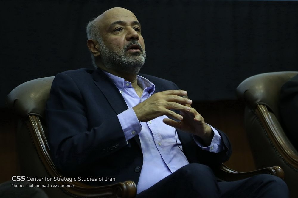 Ahmad Meydari, Iranian economist